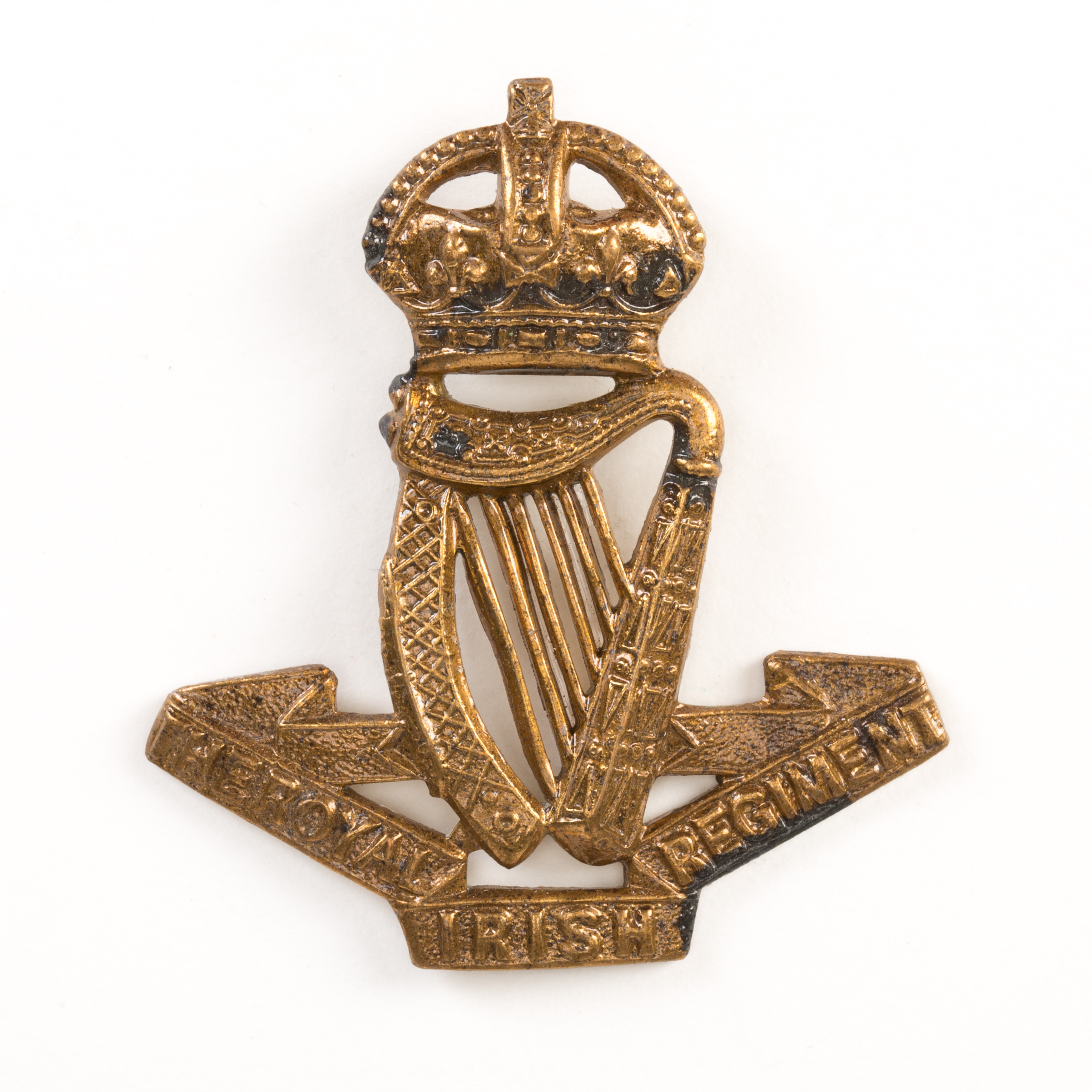 Badge, regimental. Royal Irish Regiment Harp centre, "The Royal Irish Regiment" banner beneath, crown above. Evidence of a broken metal slider on reverse. The Royal Irish Regiment, until 1881 the 18th Regiment of Foot, was an infantry regiment of the line in the British Army, first raised in 1684. Also known as the 18th (Royal Irish) Regiment of Foot and the 18th (The Royal Irish) Regiment of Foot, it was one of eight Irish regiments raised largely in Ireland, its home depot in Clonmel. It saw service for two and a half centuries before being disbanded with the Partition of Ireland following establishment of the independent Irish Free State in 1922 when the five regiments that had their traditional recruiting grounds in the counties of the new state were disbanded.